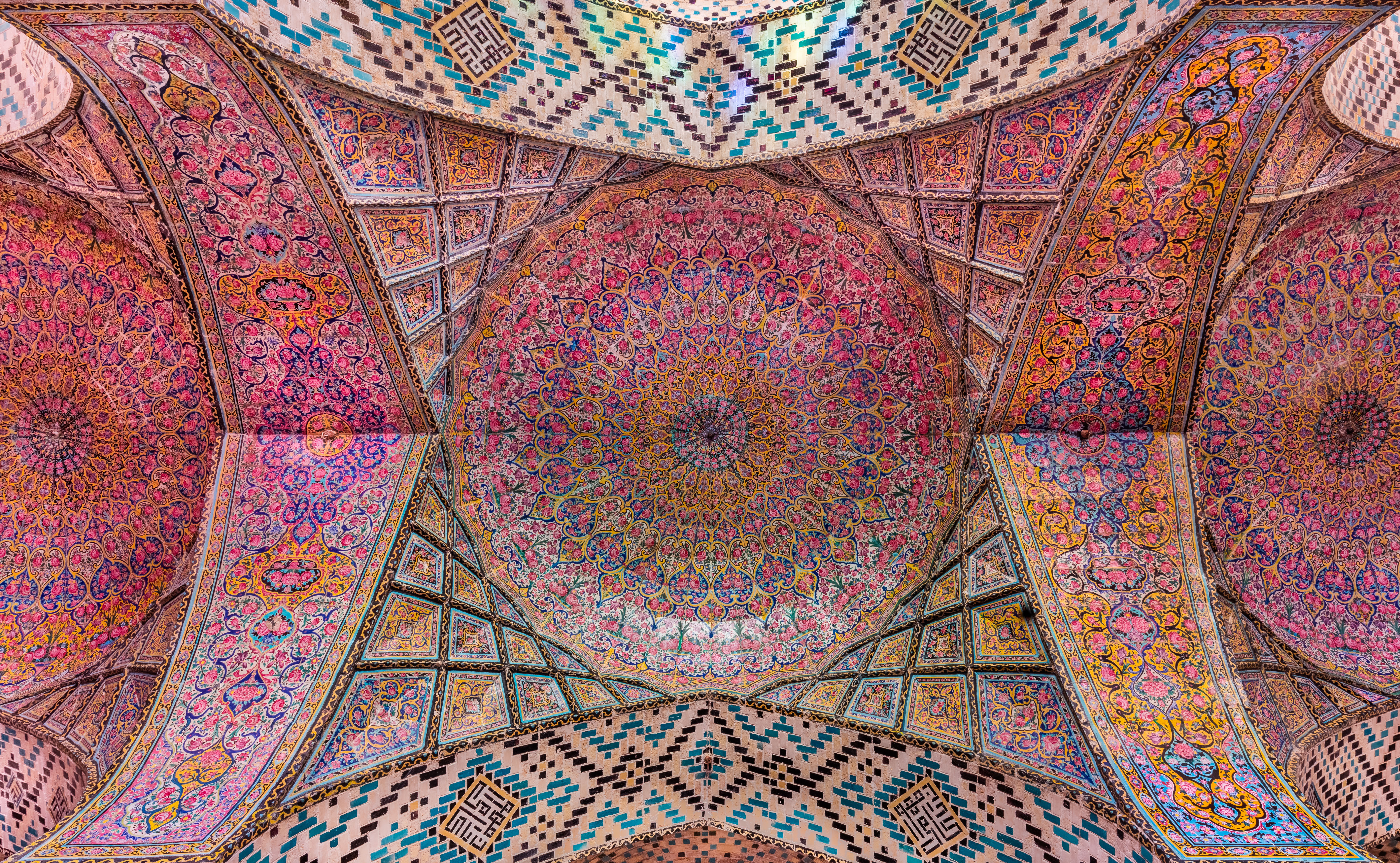 View of the ceiling in the interior of the Nasir-ol-Molk Mosque, also known as the Pink Mosque, is a traditional mosque located in Shiraz district of Gowad-e-Arabān, Iran. The mosque was built from 1876 to 1888, by the order of Mirzā Hasan Ali (Nasir ol Molk), a Qajar ruler.